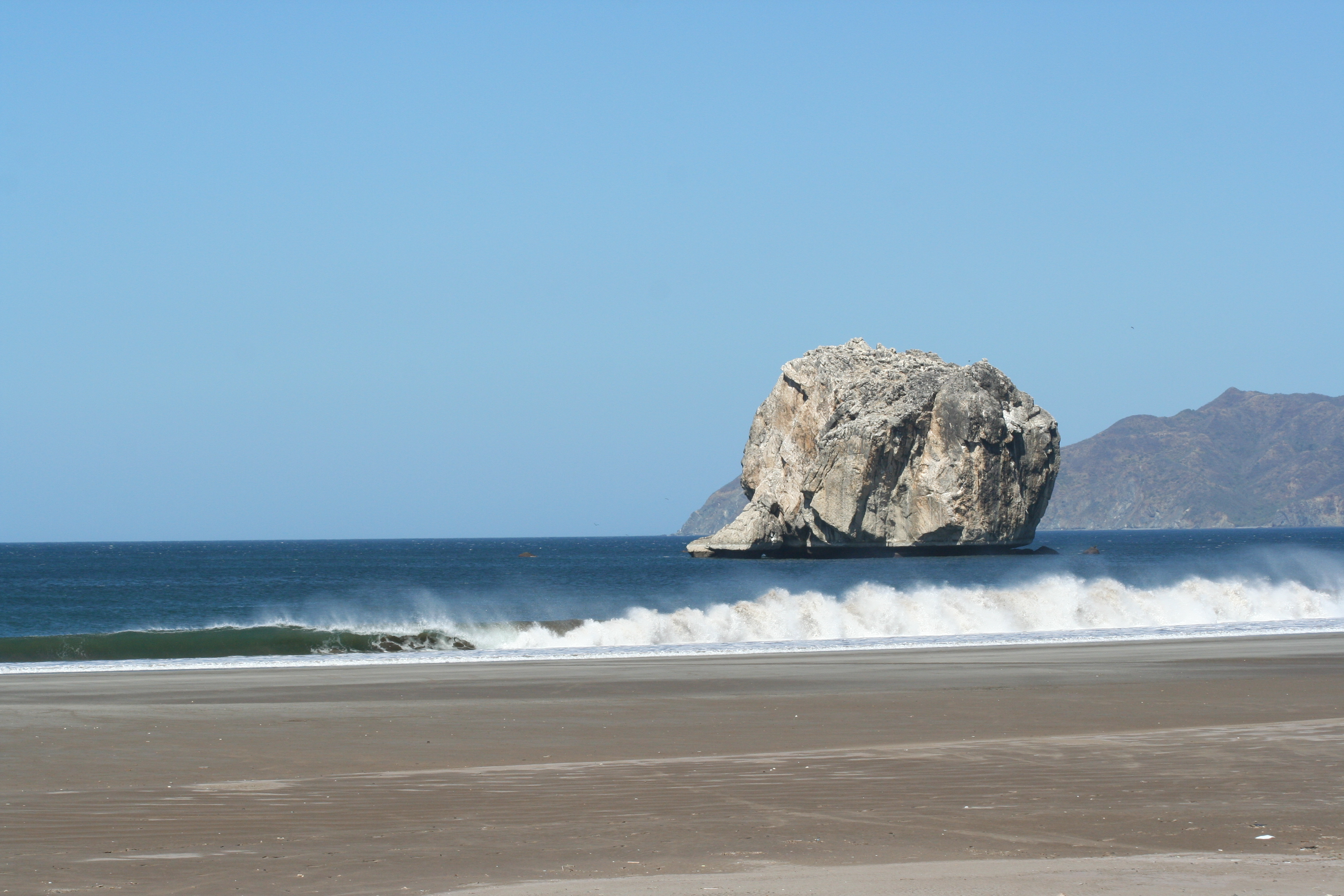 Witch's Rock, Guanacaste, Costa Rica.